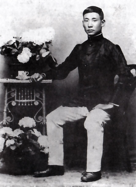 Long Yun (Lung Yün)’ｓ youth (1884 - 1962)